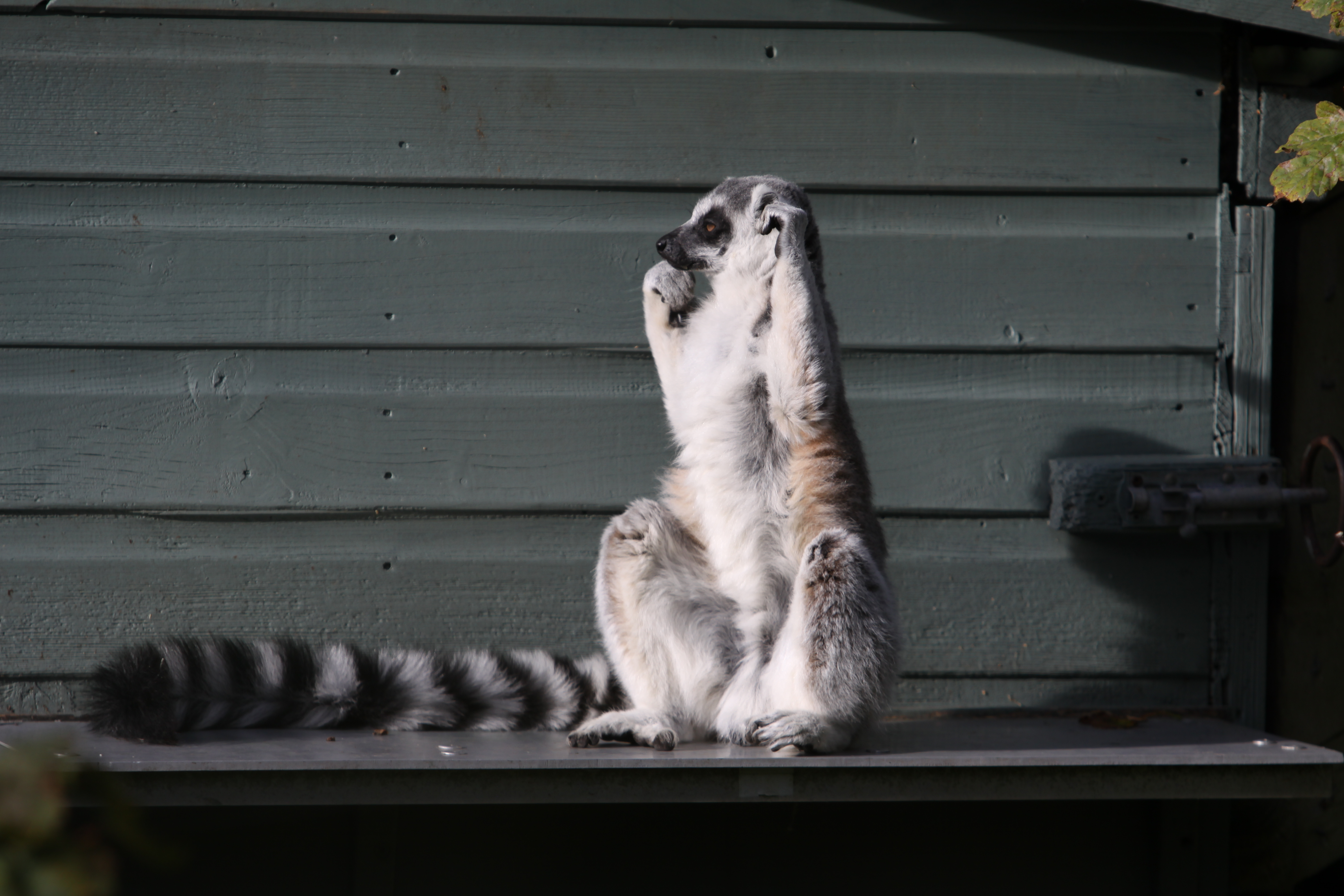 Ring-tailed lemur (Lemur catta) at Durrell Wildlife Park (Jersey)